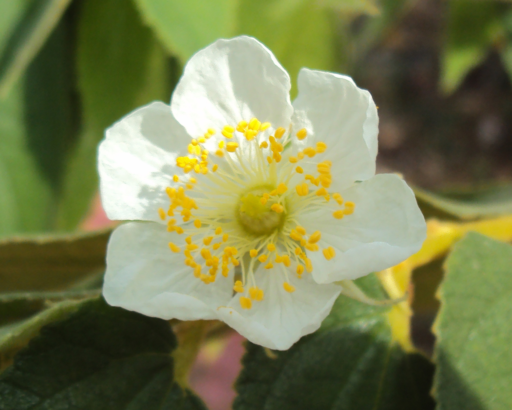 Muntingia calabura flower